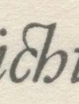 c-h ligature